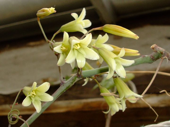 Adenia digitata (Harv.) Engl., flowers